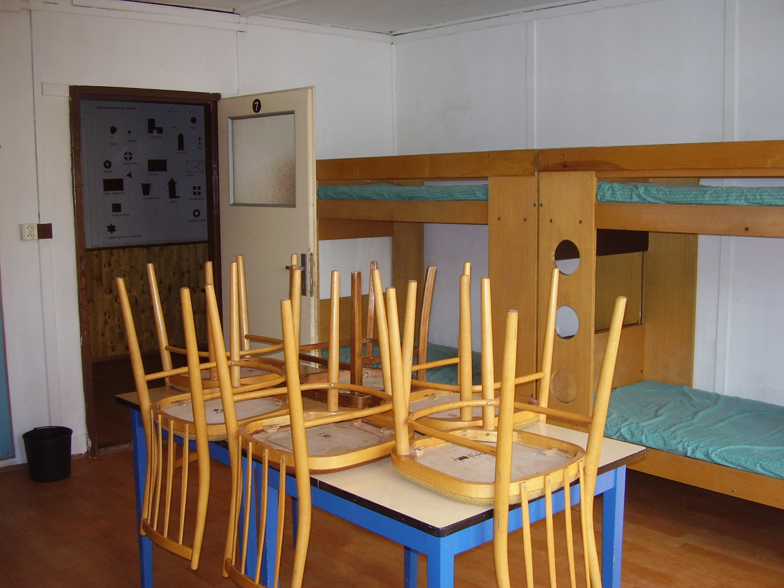 Interior of room in turistic hostel